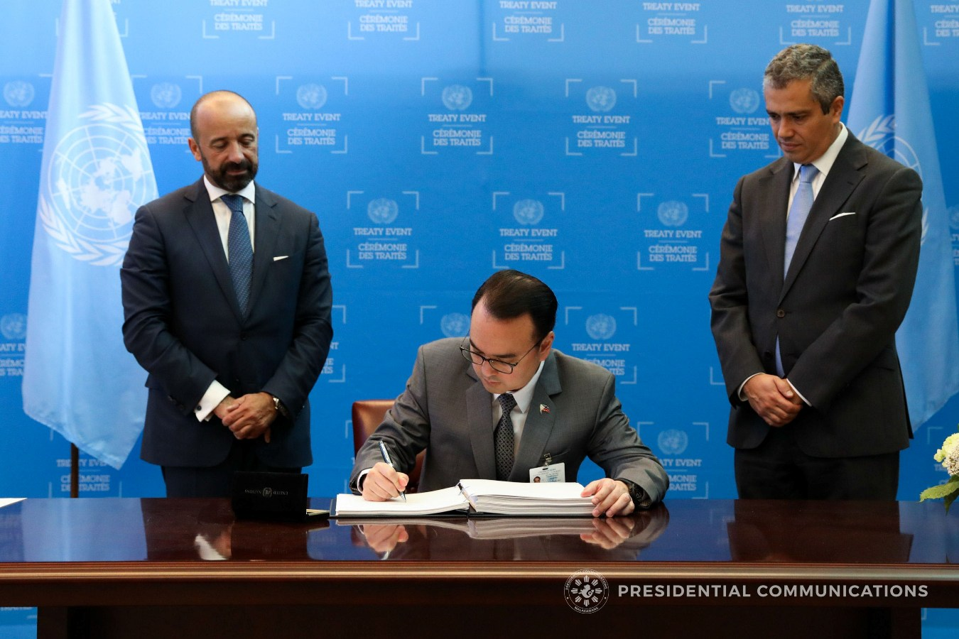 The Philippines represented by Foreign Affairs Secretary Alan Peter Cayetano signs the Treaty on the Prohibition of Nuclear Weapons at the United Nations headquarters in New York on September 20, 2017. Secretary Cayetano expressed that the Republic of the Philippines is calling on nuclear-weapon states to join the international community in making the world a safer place. He added that the world will only be safer if all countries eliminate all weapons of mass destruction. KARL NORMAN ALONZO/ PRESIDENTIAL PHOTO